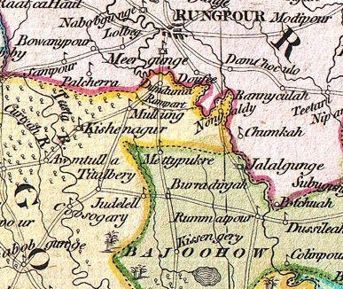 This is small portion of Dury Wall Map of Bihar and Bengal, India by James Rennell, one of the first accurate maps of the interior of India. Laid out from primary surveys done by James Rennell, the first modern cartographer to map the interior of India. Notes cities, markets, battlefields, fortresses, roads, rivers, offers political commentary, and features some geographical references.